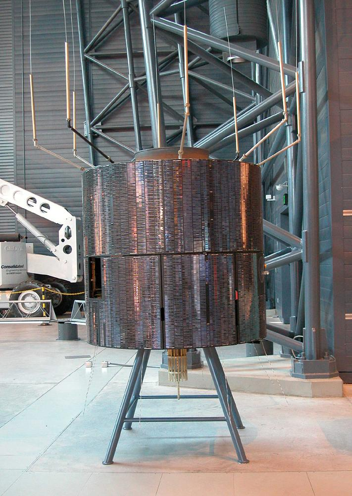 ATS satellite prototype built by Hughes Aircraft and transferred by NASA to the Smithsonian's National Air and Space Museum in 1976.